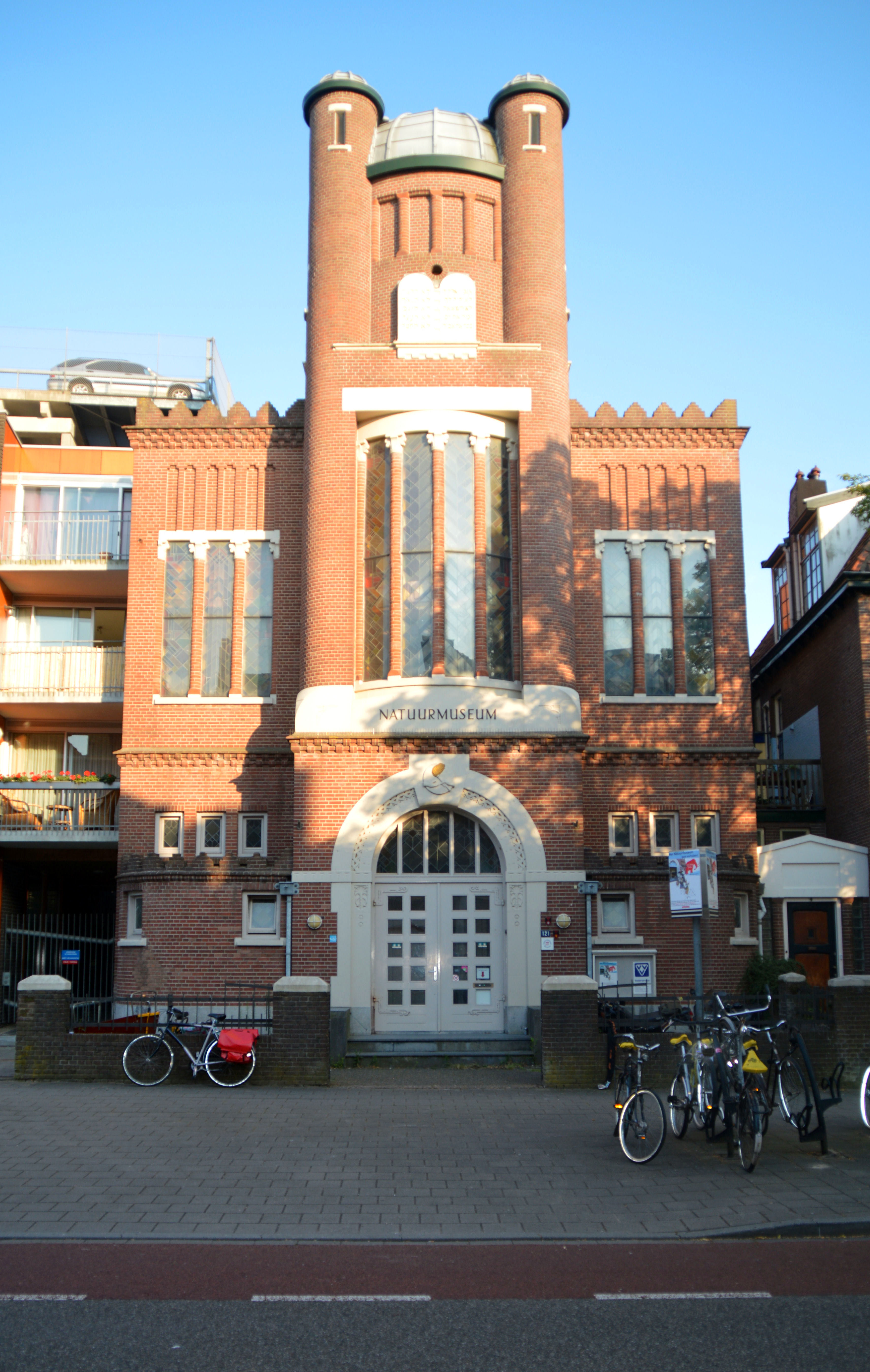 Synagoge Nijmegen